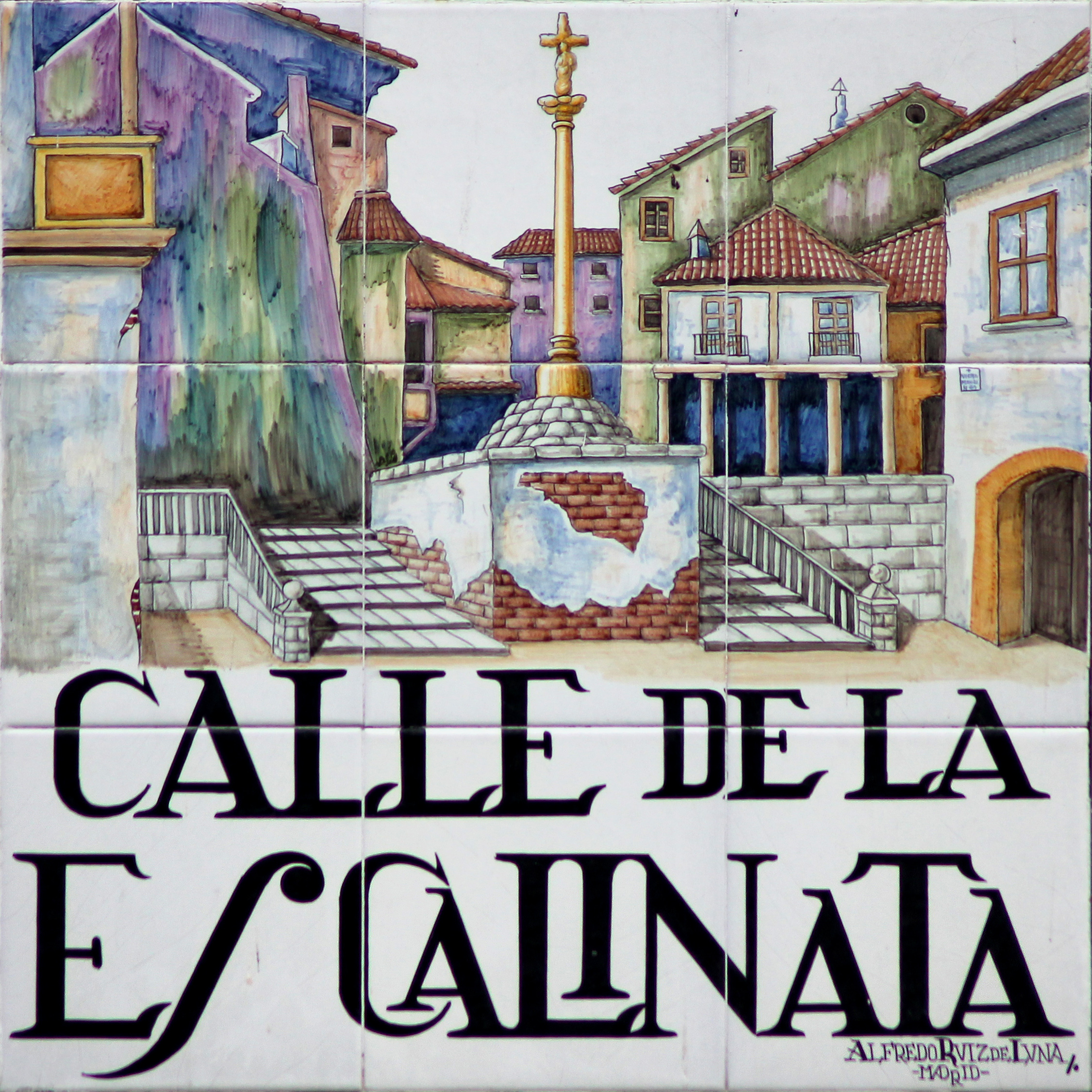 Sign of Calle de la Escalinata (street) in Madrid (Spain).